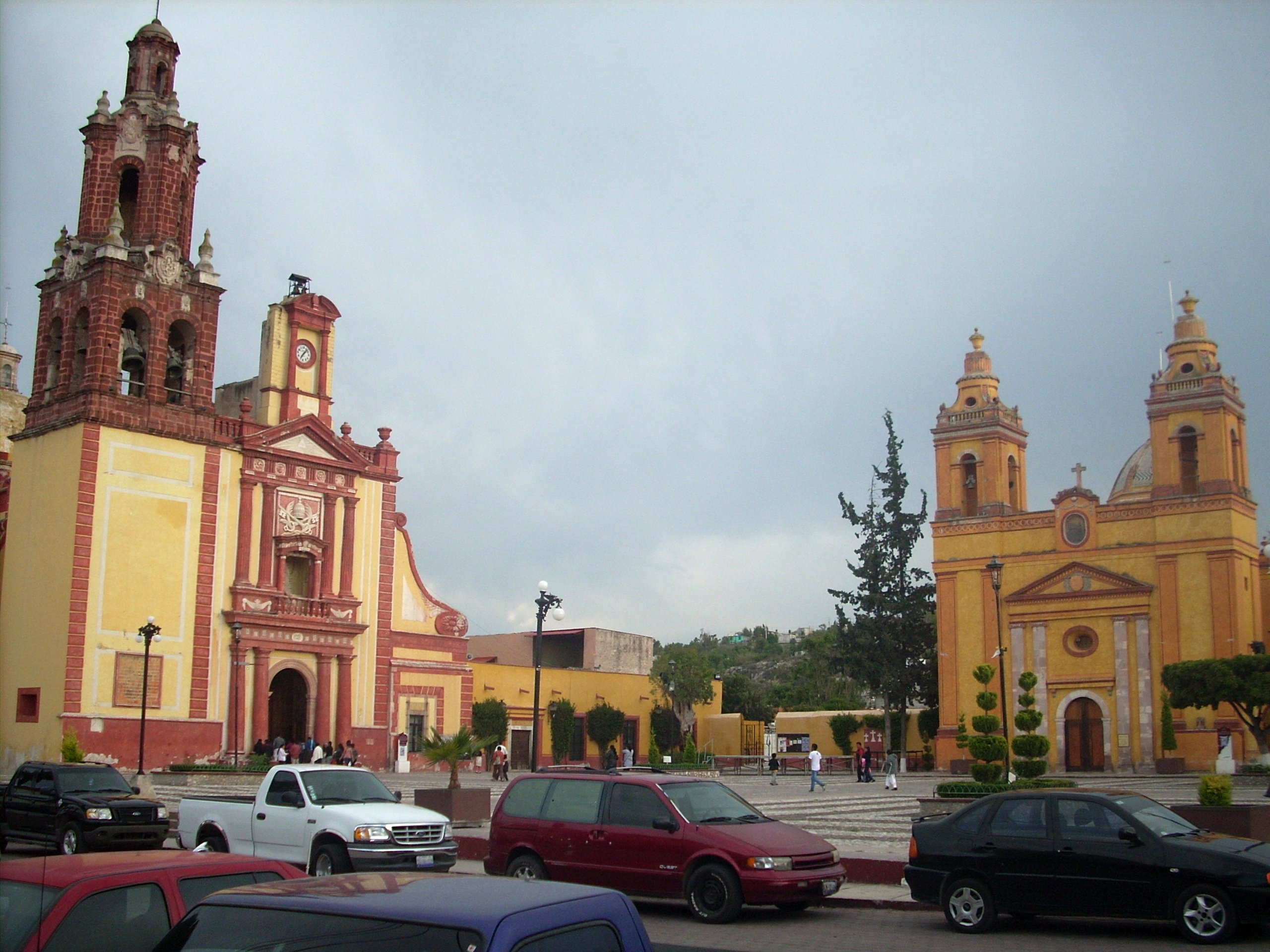 The main square in the centre of the town of Cadereyta de Montes, Queretaro, Mexico.